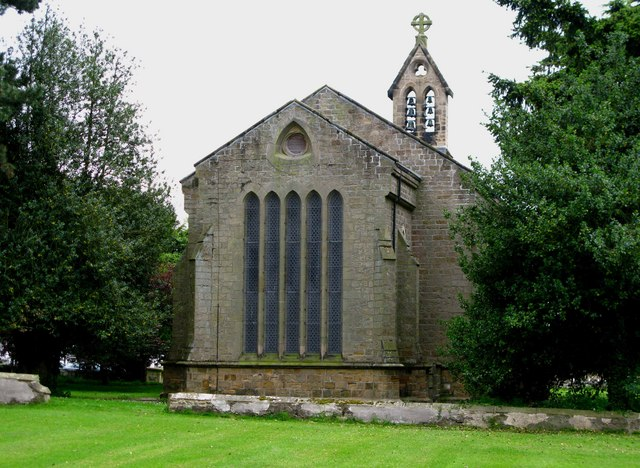 Saint Gregory Crakehall Built in 1839 in the Gothic style the church had only two bells in 1890 (Bulmer). Now there are six.